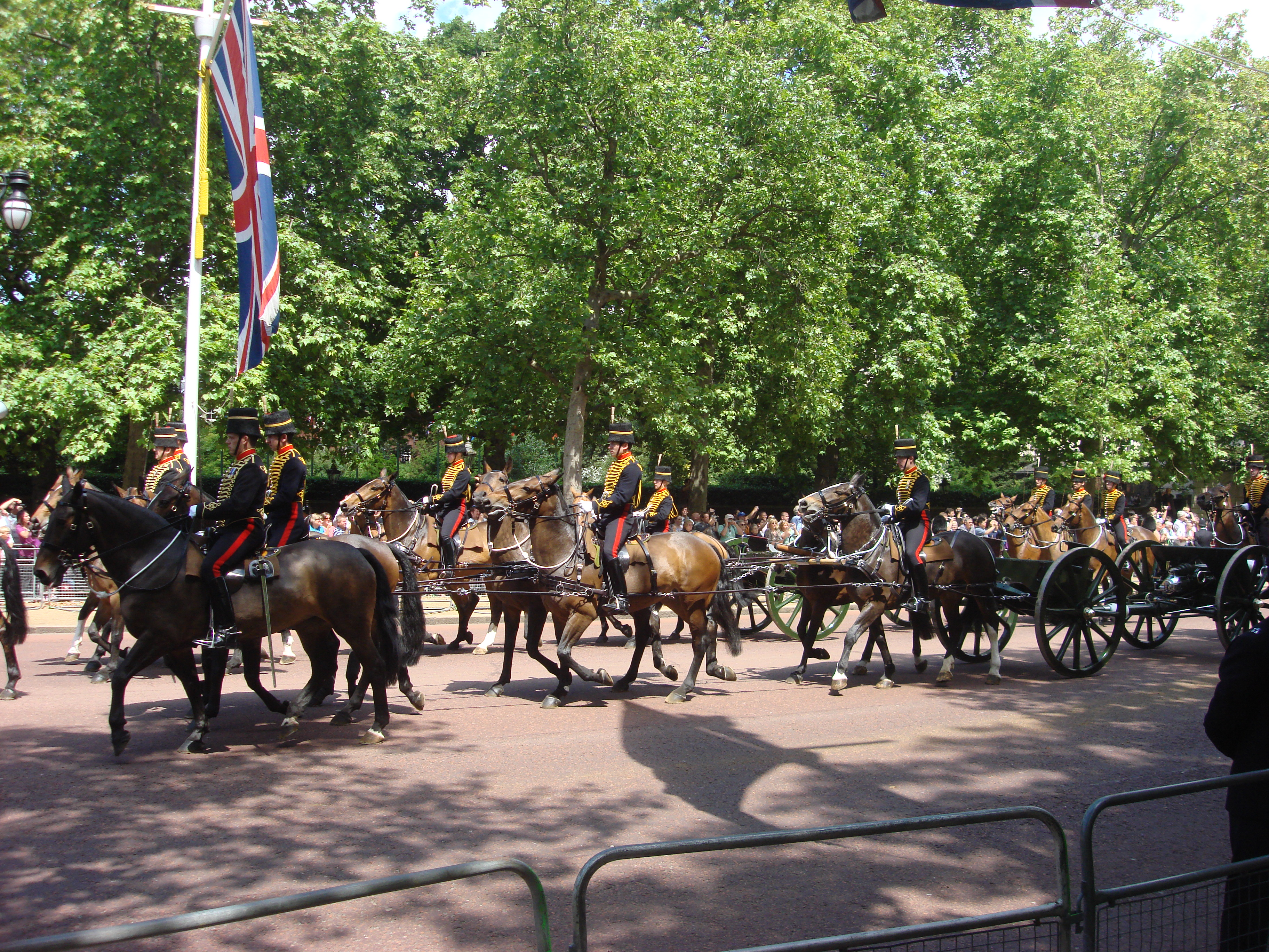 Trooping the Colour 2009